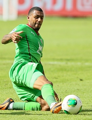 Yann M'Vila with FC Rubin Kazan in 2013.